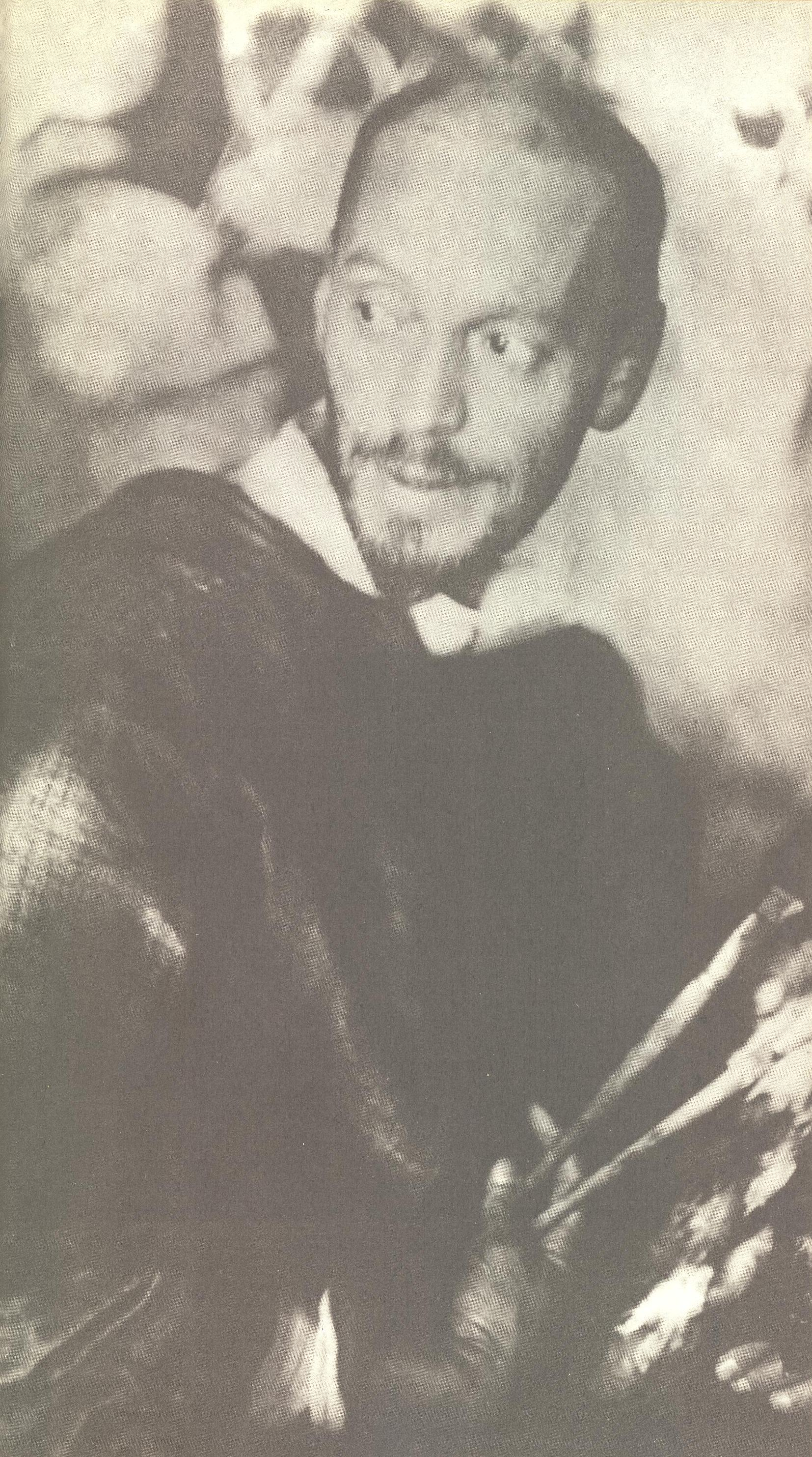 Nikolay Ivanovich Kulbin. 1909. Photo